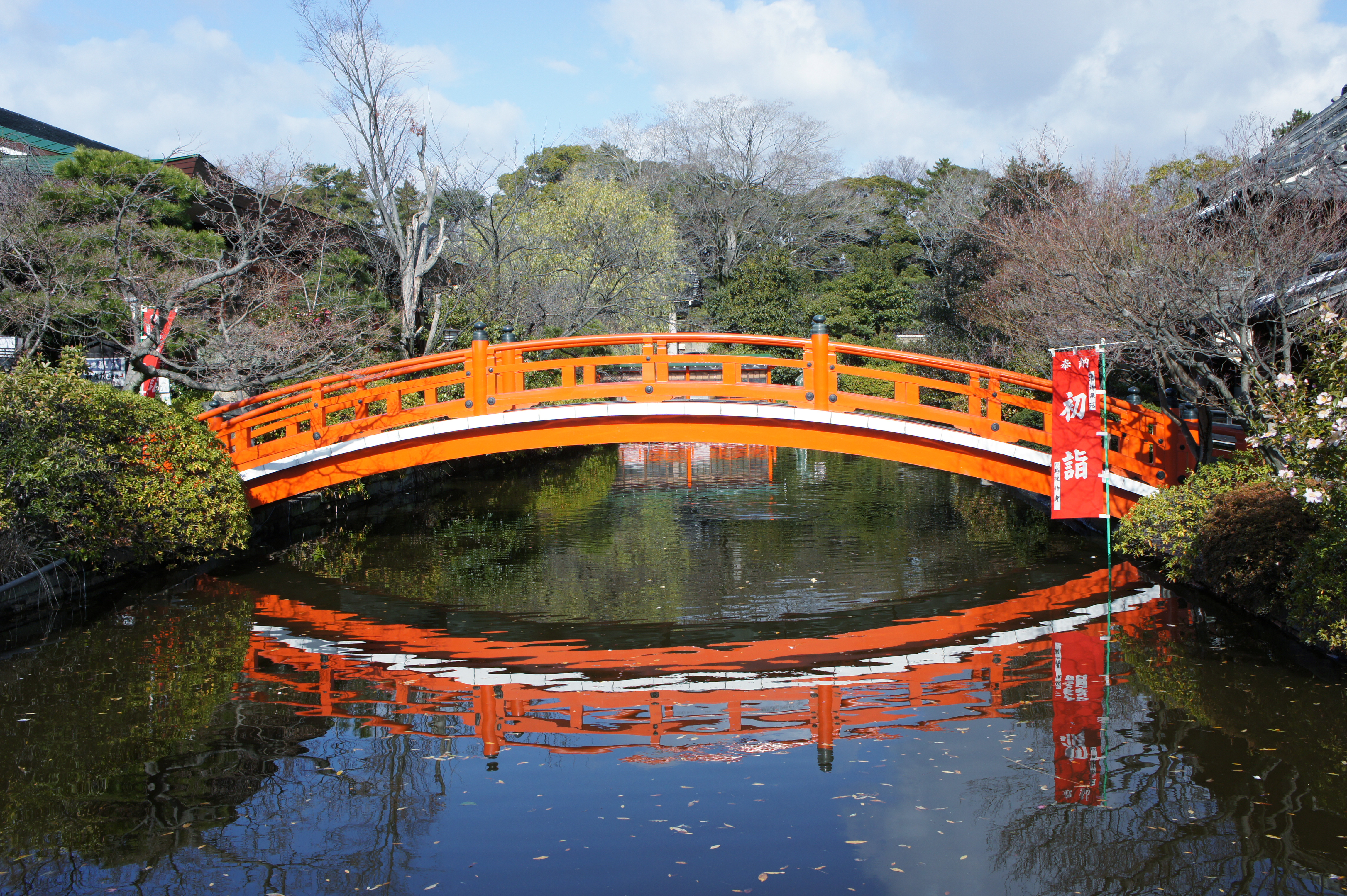 Shinsen-en in Kyoto, Kyoto prefecture, Japan.